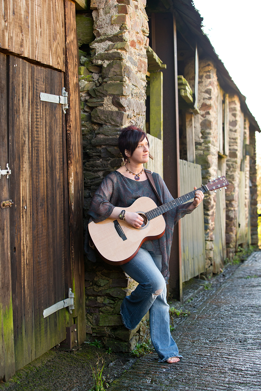 Ange Hardy, folk musician, standing with Martin 000-16 guitar